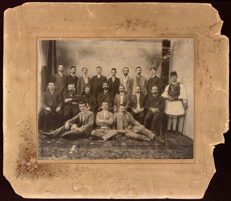 Georgi Sarakinov, Emanuil Lepchev